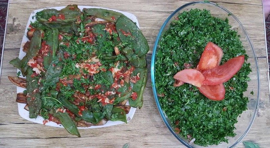 Raheb salad